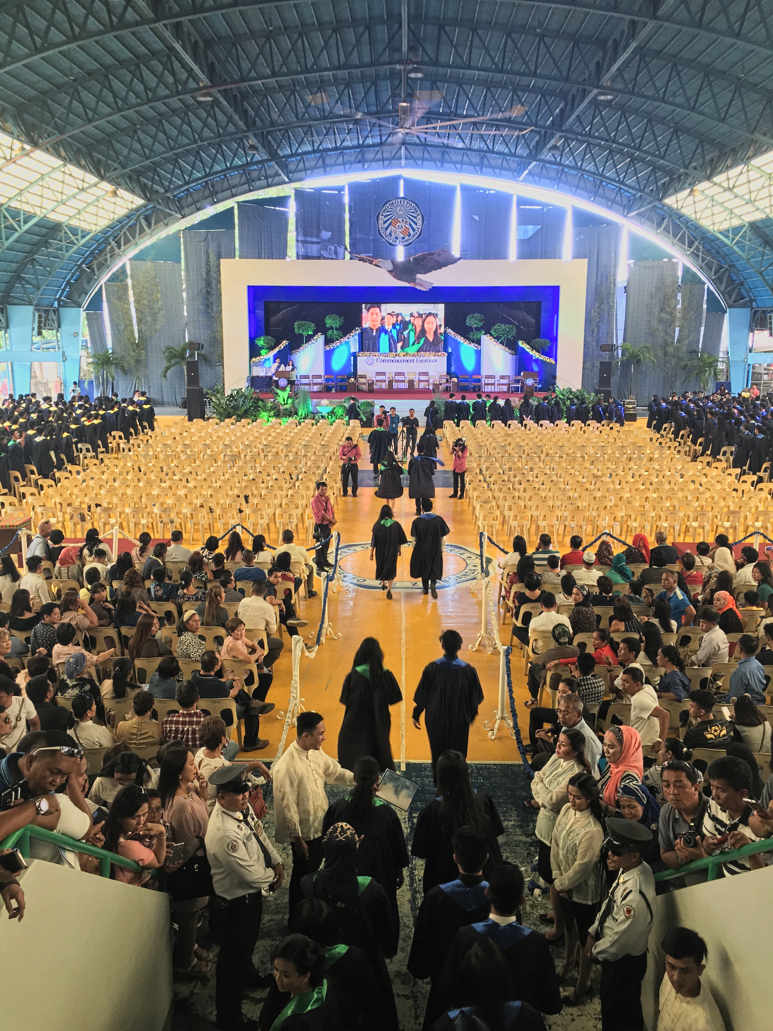 A scene from the 1st Ateneo de Zamboanga University Senior High School Commencement Exercises. The Ateneo de Zamboanga University Senior High School, one of the first Senior High Schools in the Philippines, graduated its pioneering cohort in March 2018.